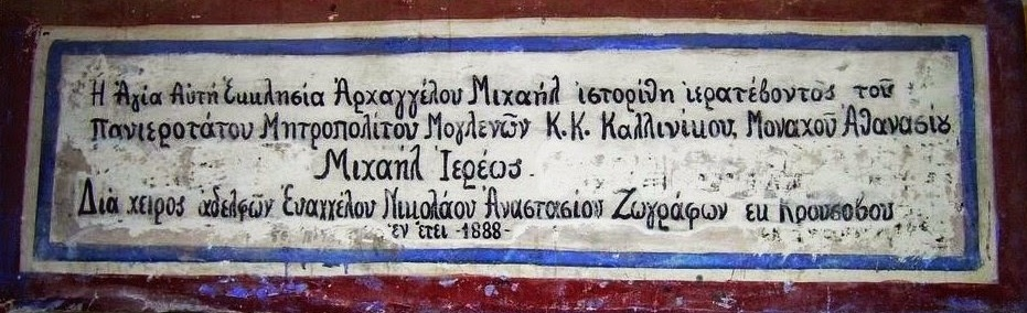 Archangel Michael Monastery in Meglen Almopia Inscription